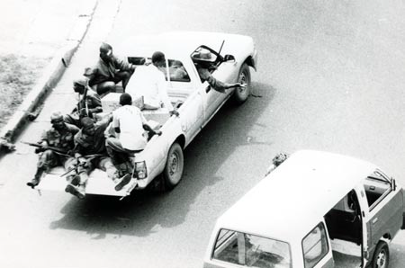 Armed Independent National Patriotic Front of Liberia soldiers drive past the American Embassy on United Nations Drive.